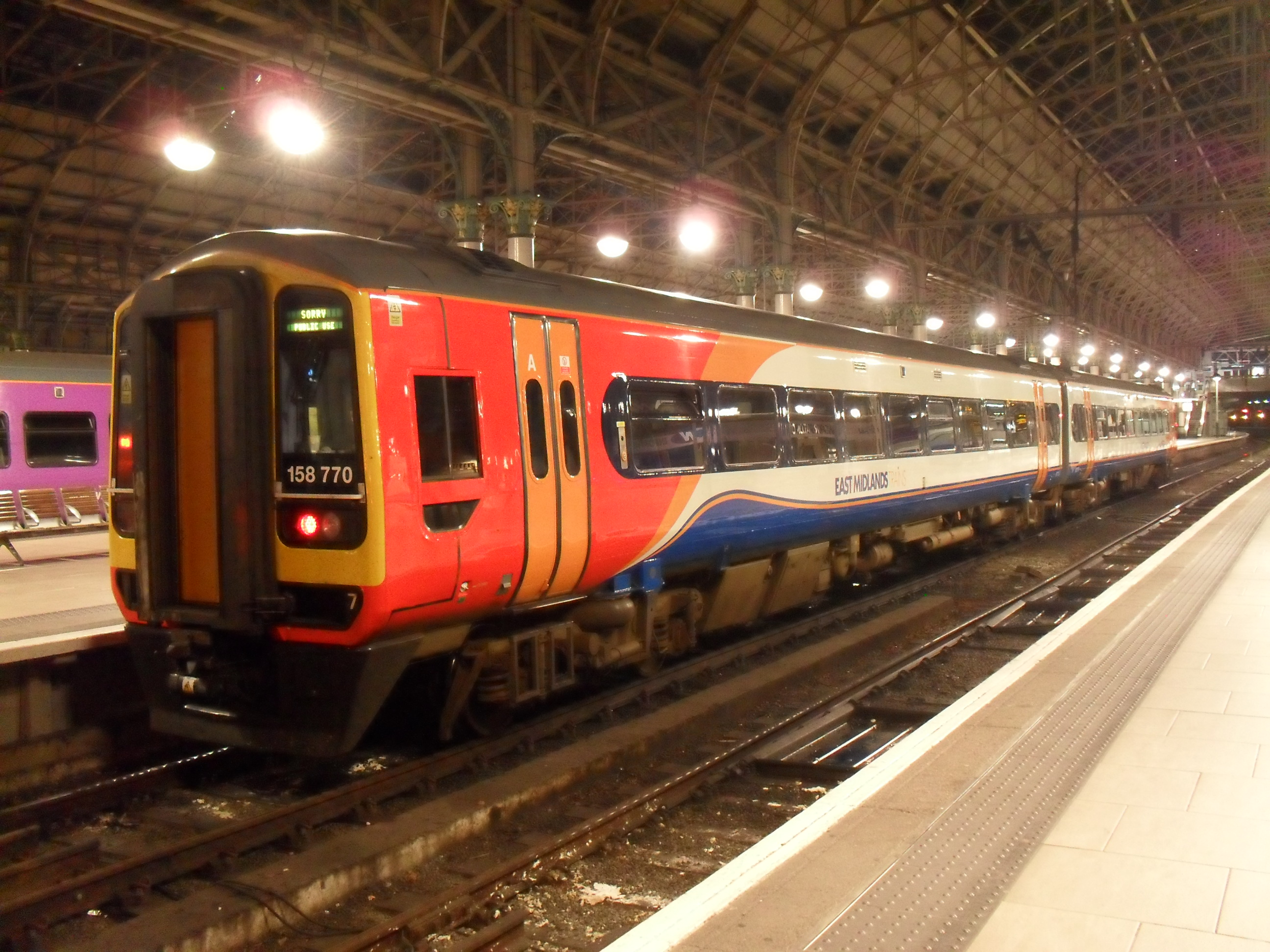 On the evening of 4 September 2010, East Midlands Trains Class 158 unit number 158770 stands at Manchester Piccadilly.